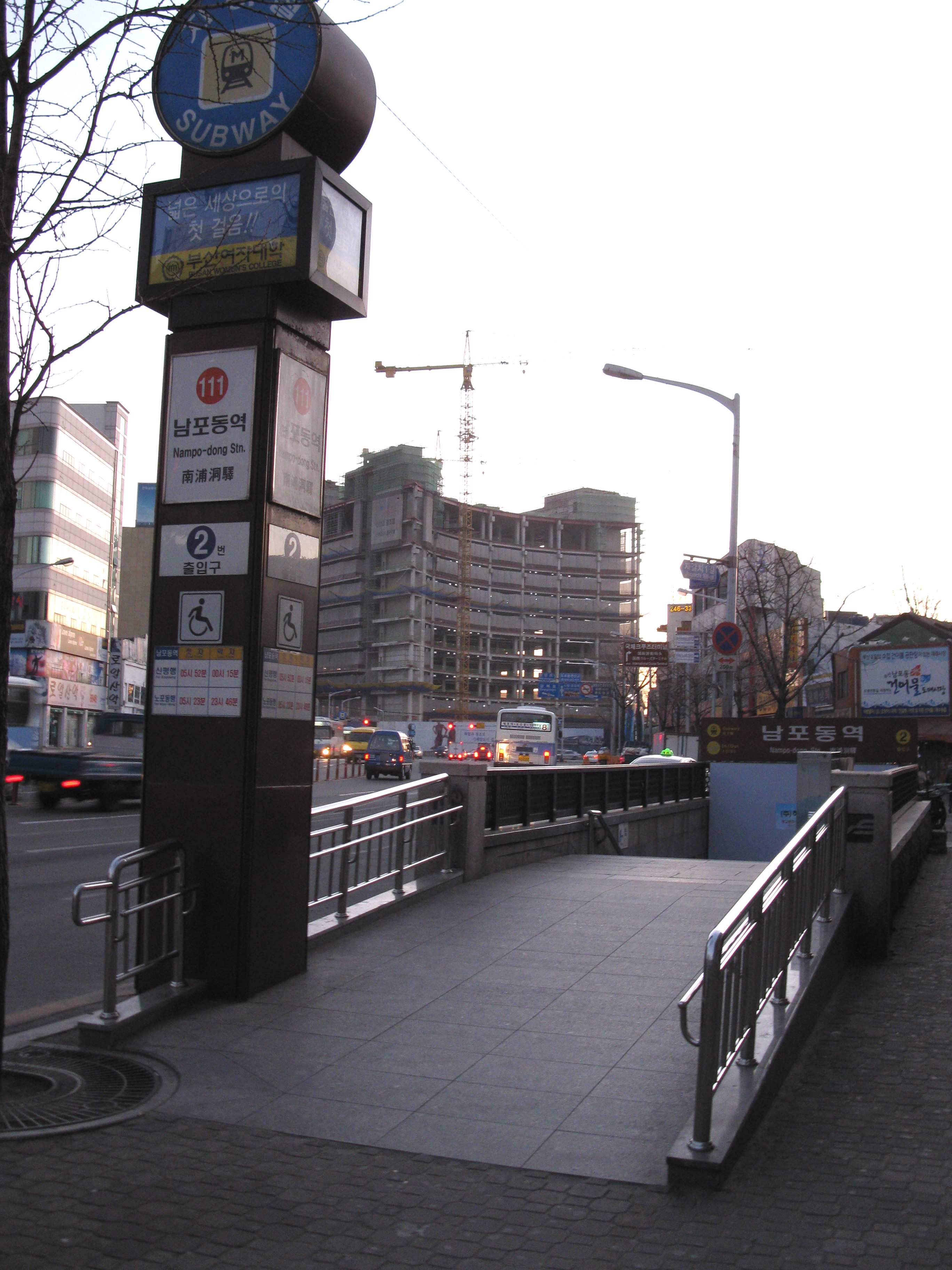 Nampo-dong Station no.2 entrance (Busan Subway Line 1)